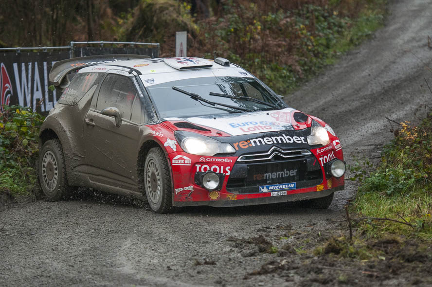 Wales Rally GB 2011 Banwy Community,Chris Patterson,Citroen DS3 WRC,Dyfnant 1,GBR,Großbritannien,Llanwddyn,Motorsport,Petter Solberg,Petter Solberg WRT,Rally,Rallye,SS7,WP7,Wales,Wales Rally GB